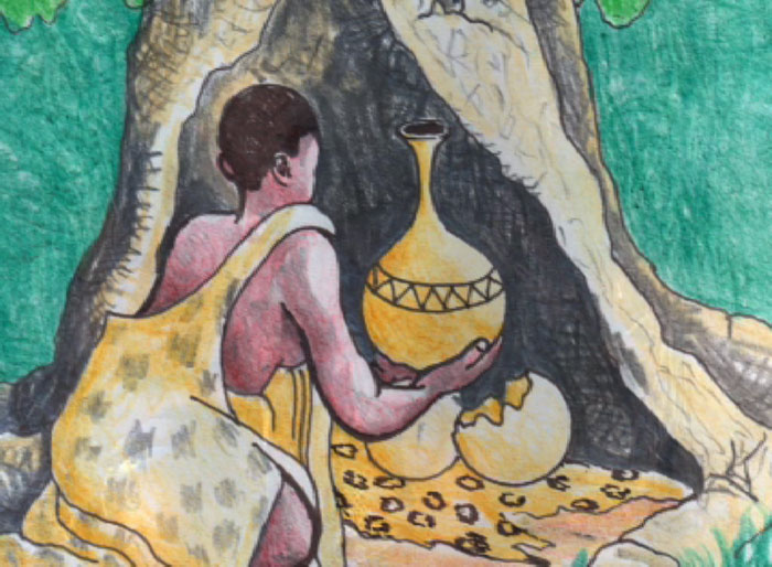 (Bakiga2,own work,Edirisa)